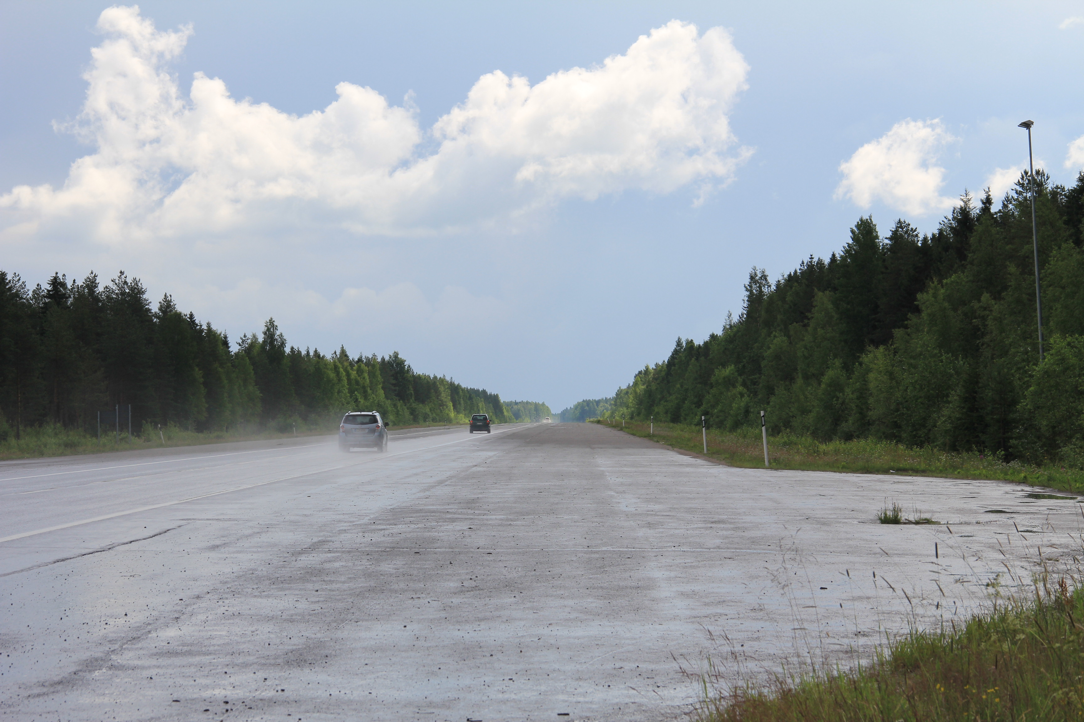 Nivala highway strip, Nivala, Finland. – Finnish national road 27 in Nivala. Auxiliary airplane landing strip.